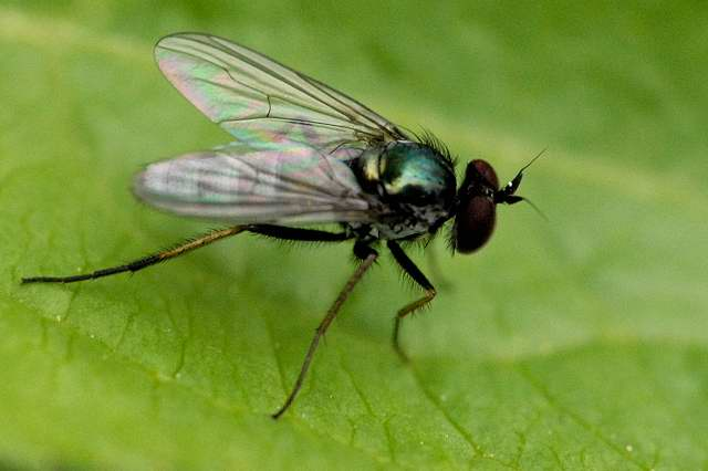 Rhaphium elegantulum from Commanster, Belgian High Ardennes .